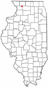 Category:Illinois city locator maps